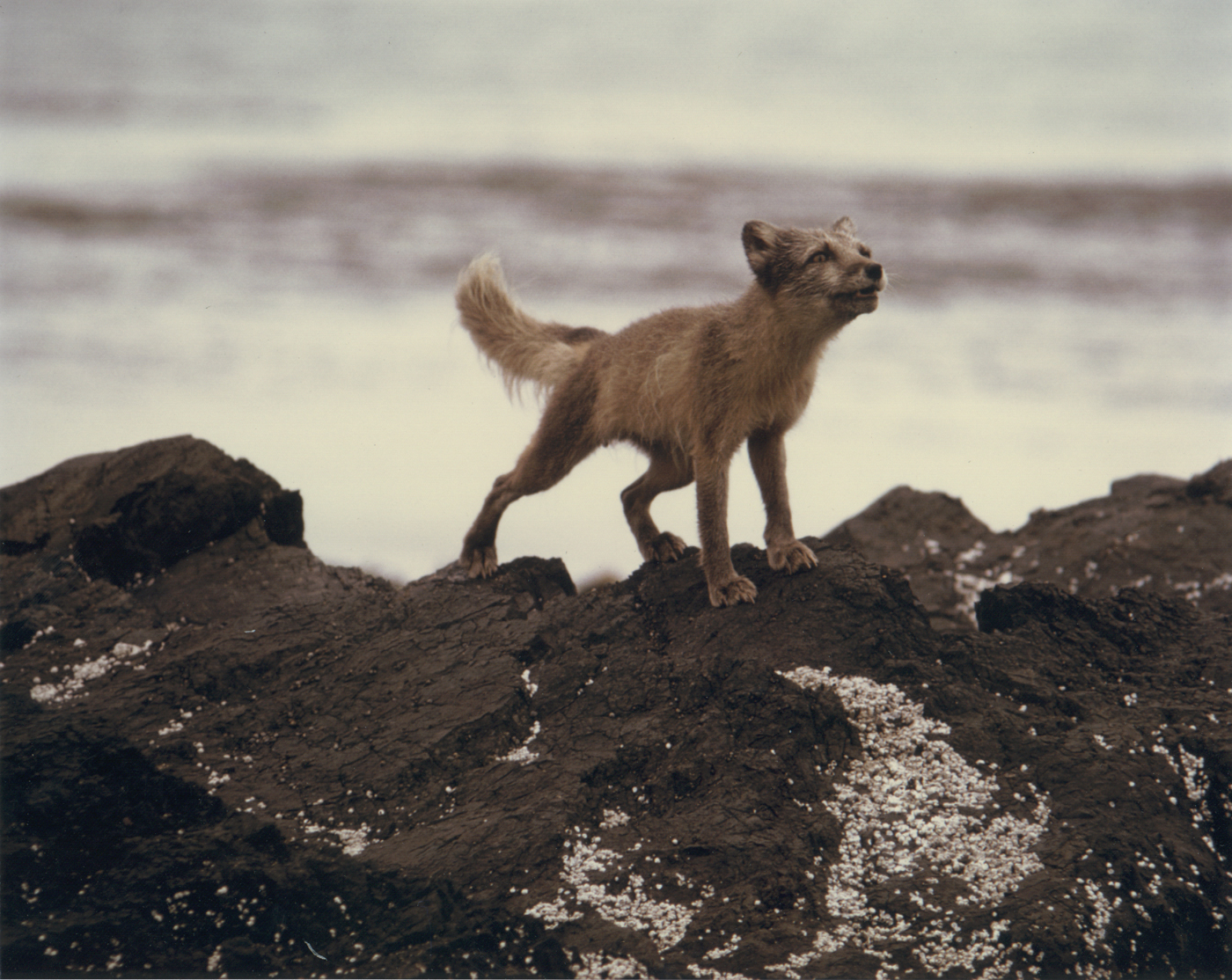 Close view of Arctic fox on Nizki Island. Fox is in defensive position.